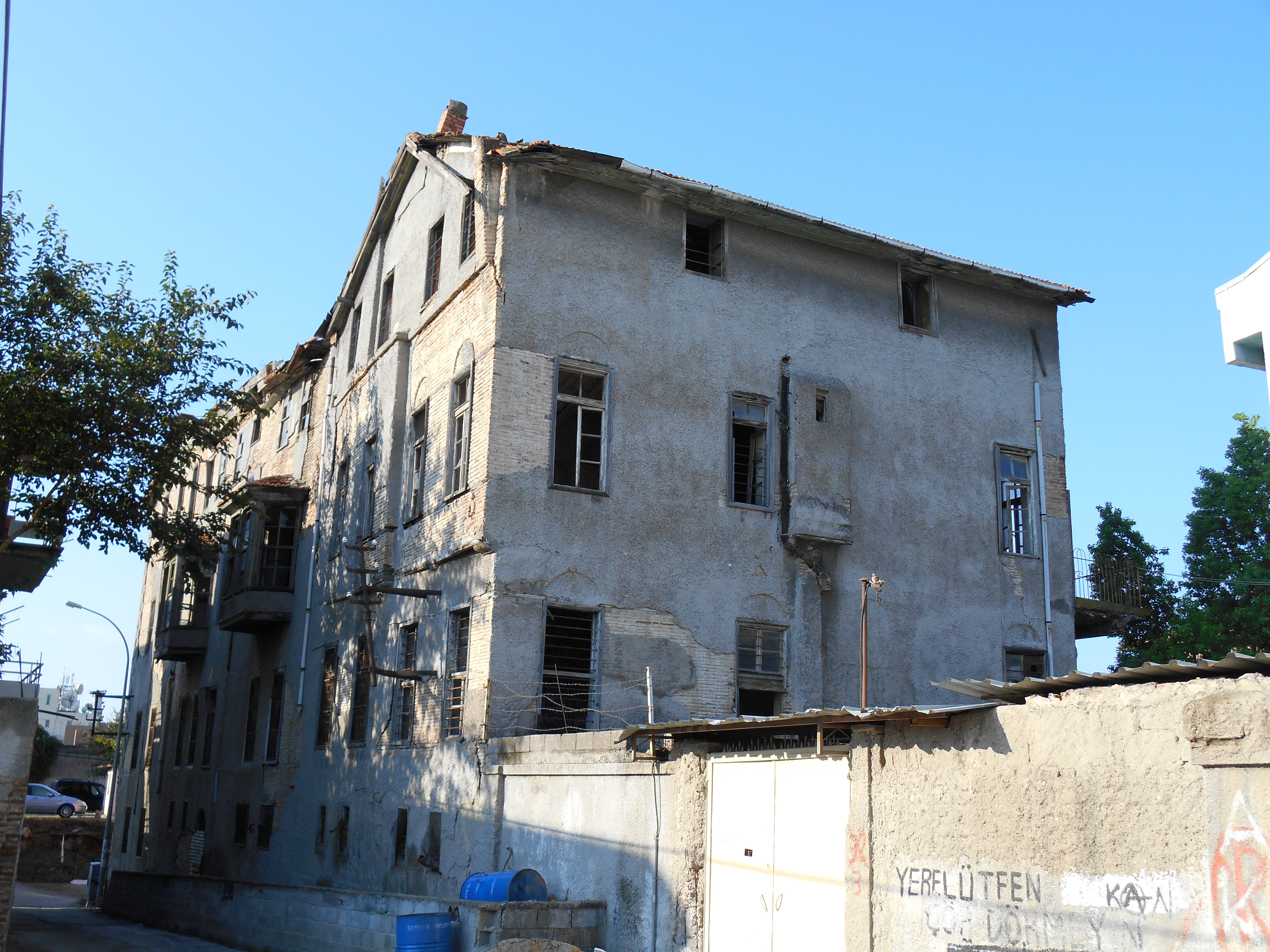 Adana American High School for Girls1